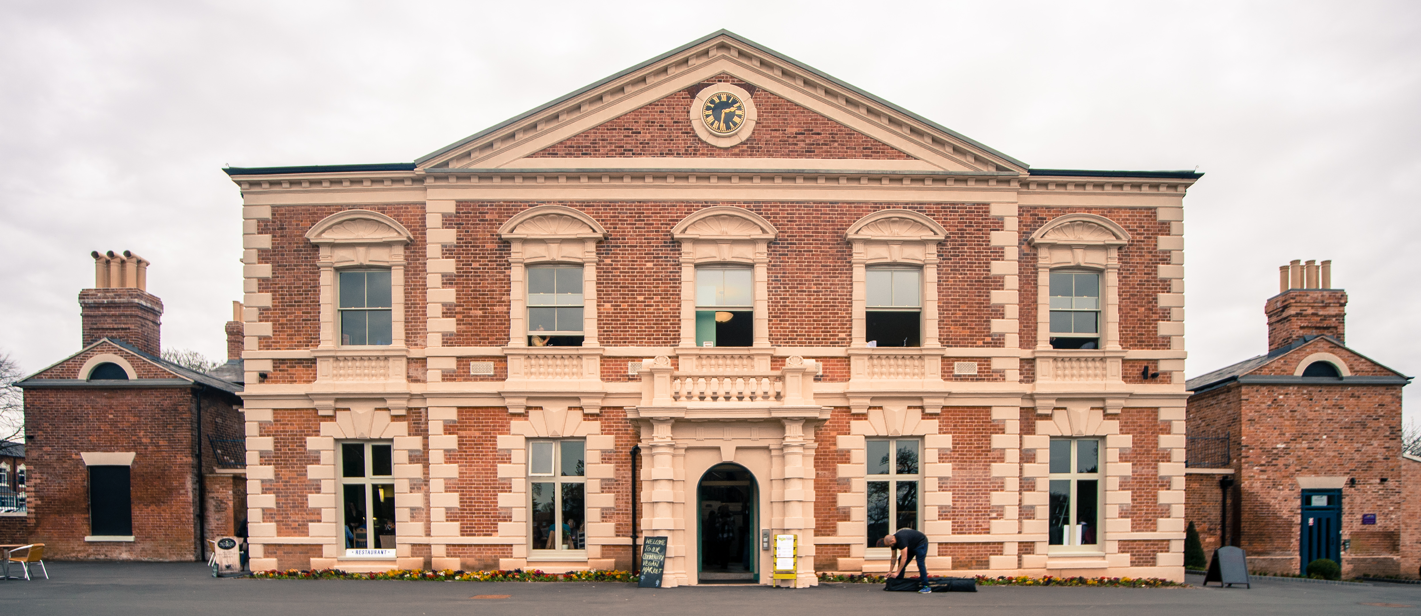 Lightwoods House, Sandwell, UK in 2018 after restoration.